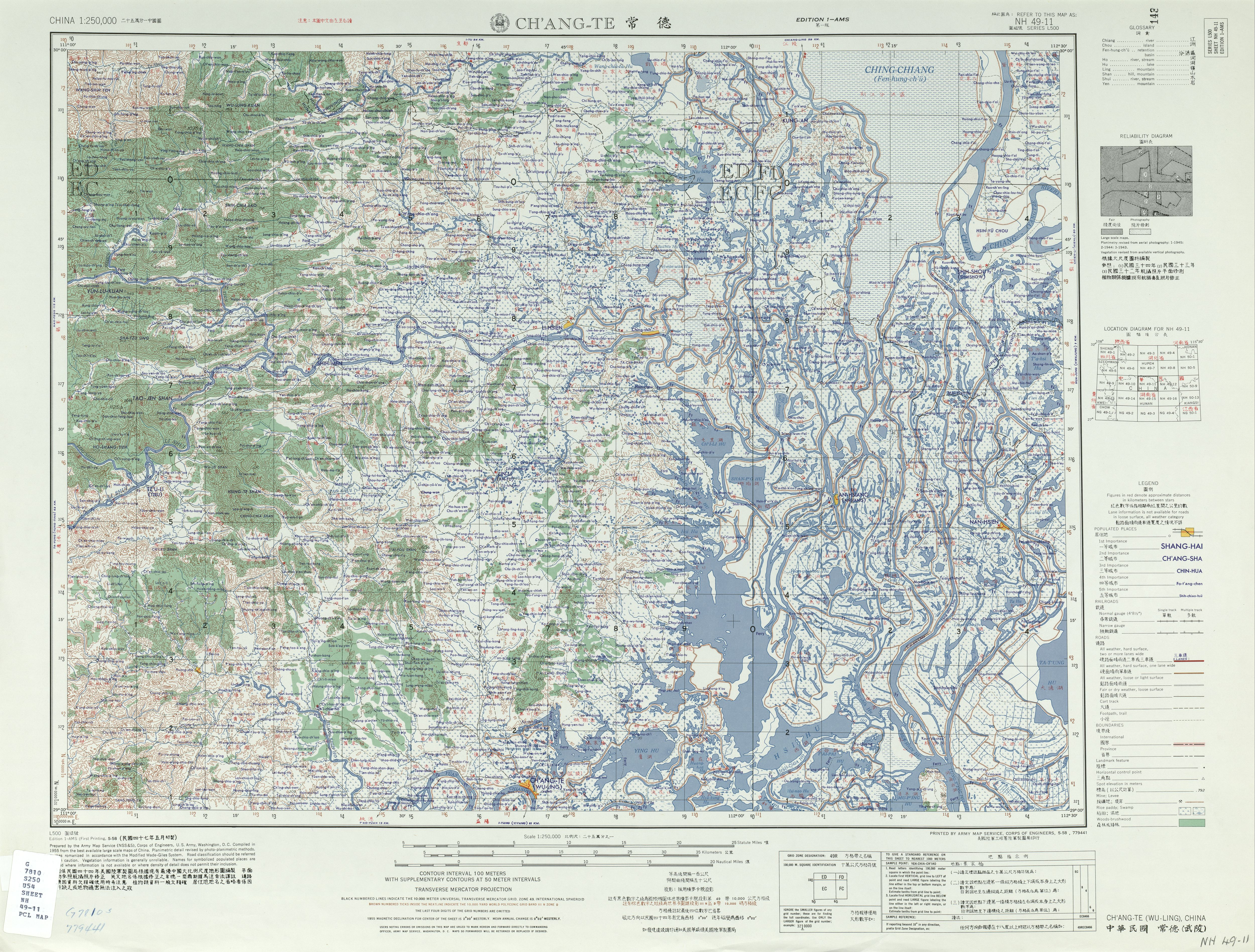 China AMS Topographic Maps